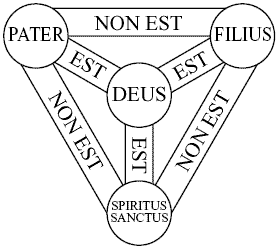 Small and compact version of a basic minimal (equilateral triangular) version of the "Shield of the Trinity" or "Scutum Fidei" diagram of traditional Christian symbolism, with original Latin captions. For a larger version of this, see Image:Shield-Trinity-Scutum-Fidei-basic.png . For other versions of this emblem, see Image:3enighed.png , Image:Shield-Trinity-medievalesque.png , Image:Trinidad-Anglican-Episcopal-Coat-of-Arms-large.png , and Image:Trinity knight shield.jpg . For discussion and explanation, see the main article Shield of the Trinity .